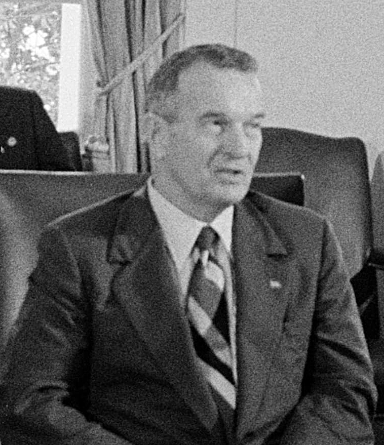 William P. Clements, Jr., Deputy Secretary of Defense seated at a table in the Cabinet Room of the White House on the meeting of the President Gerald Ford with the National Security Council.